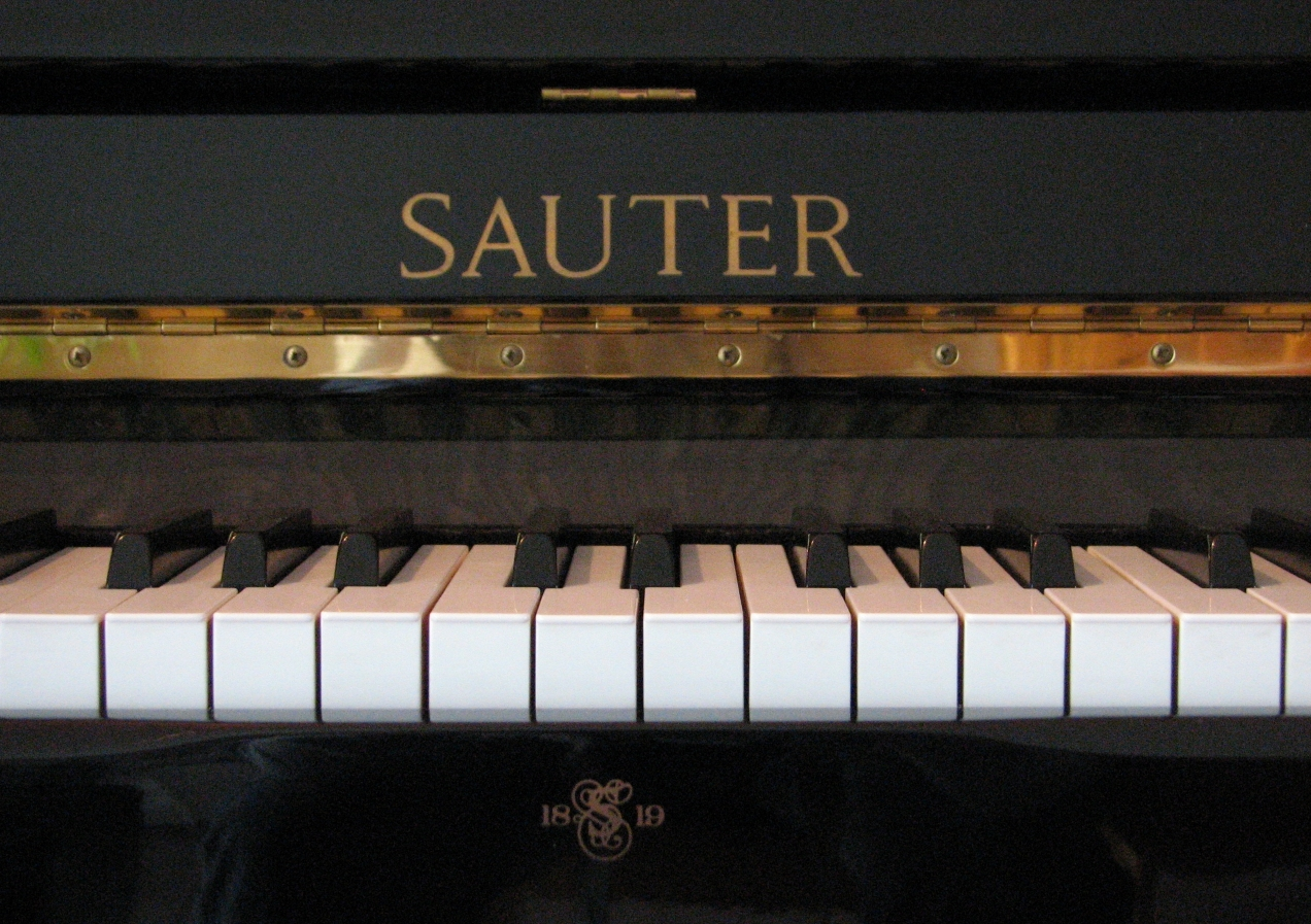 Piano Sauter (detail)